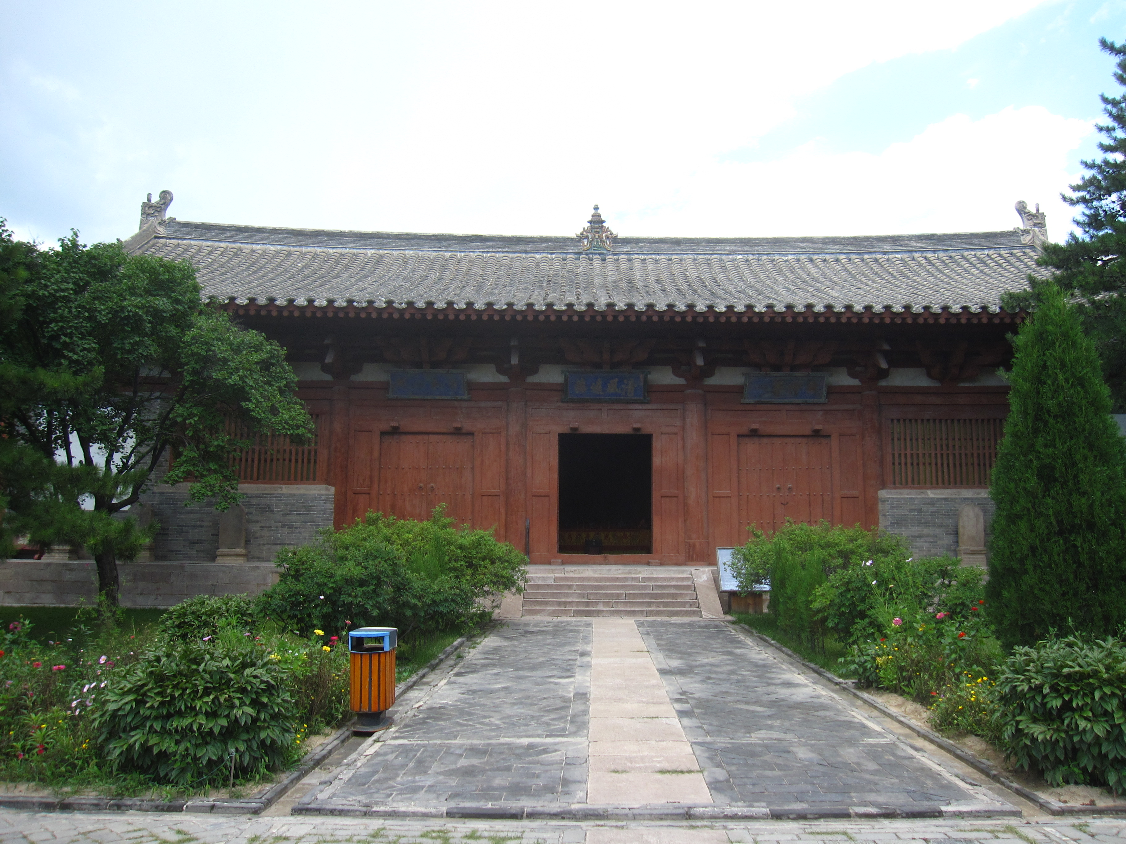 The Manjusri Hall of Foguang Temple, Wutaishan, Shanxi, China. Taken in 2010, after the site's inclusion on the World Heritage List.